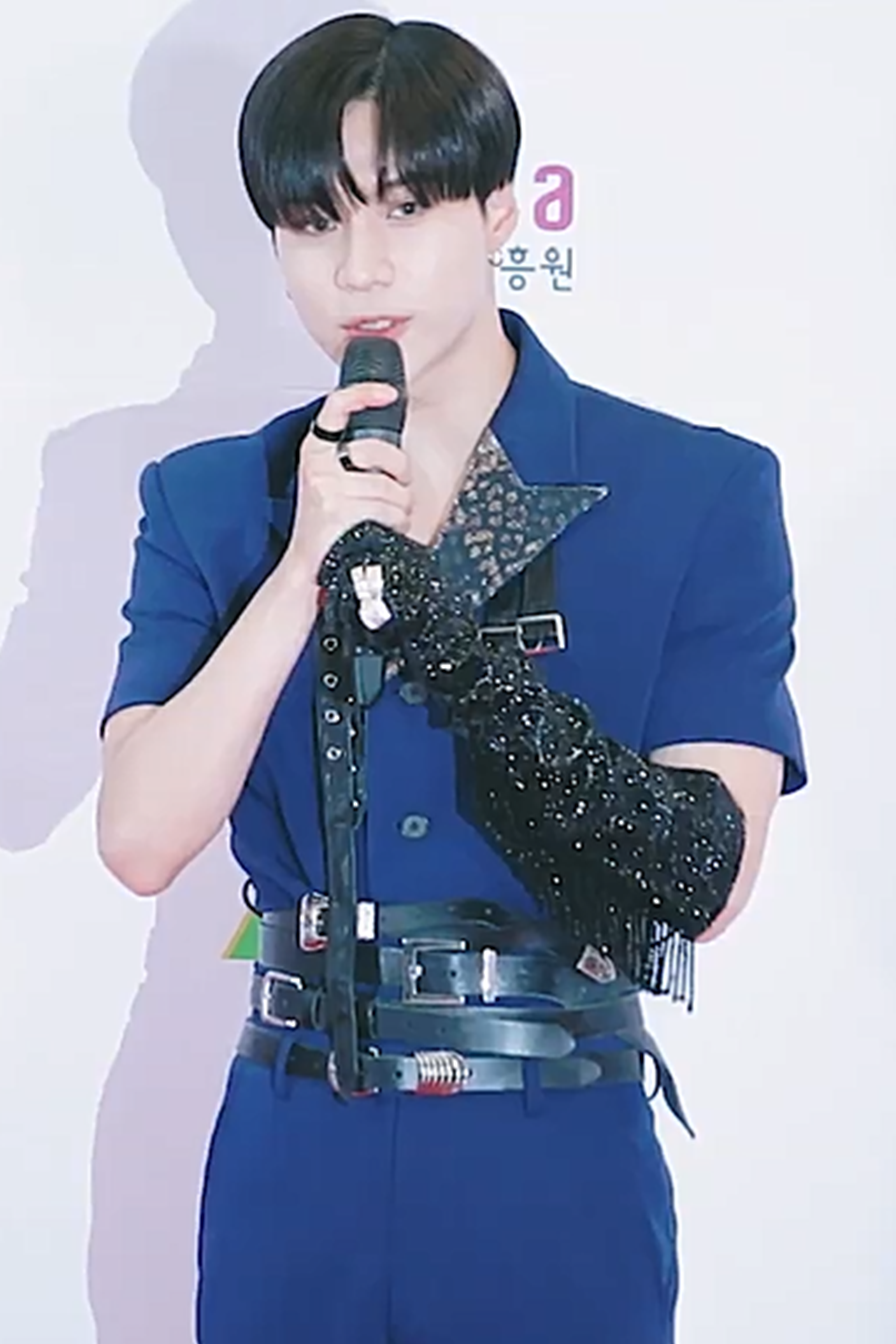 Lee Tae-min during an interview on the red carpet of the 25th Dream Concert, May 18, 2019.